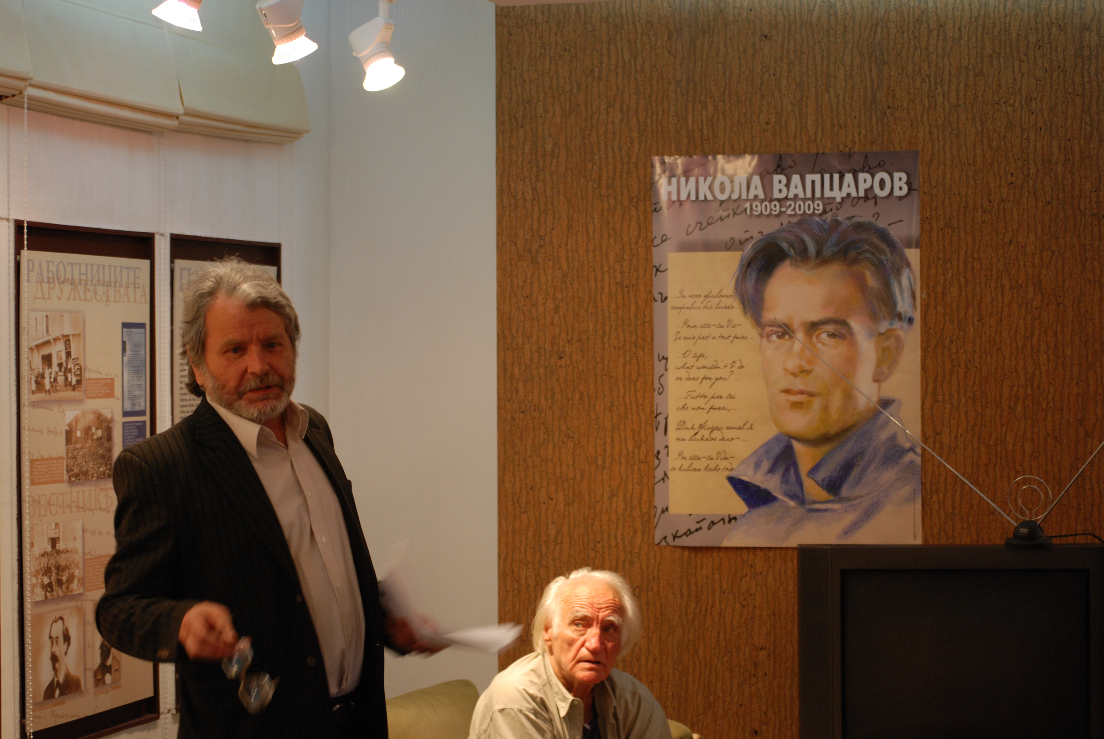 Красен Камбуров представя първия си роман "Водопадът" в Националния литературен салон “Старинният файтон”, 13 юни 2011 г.